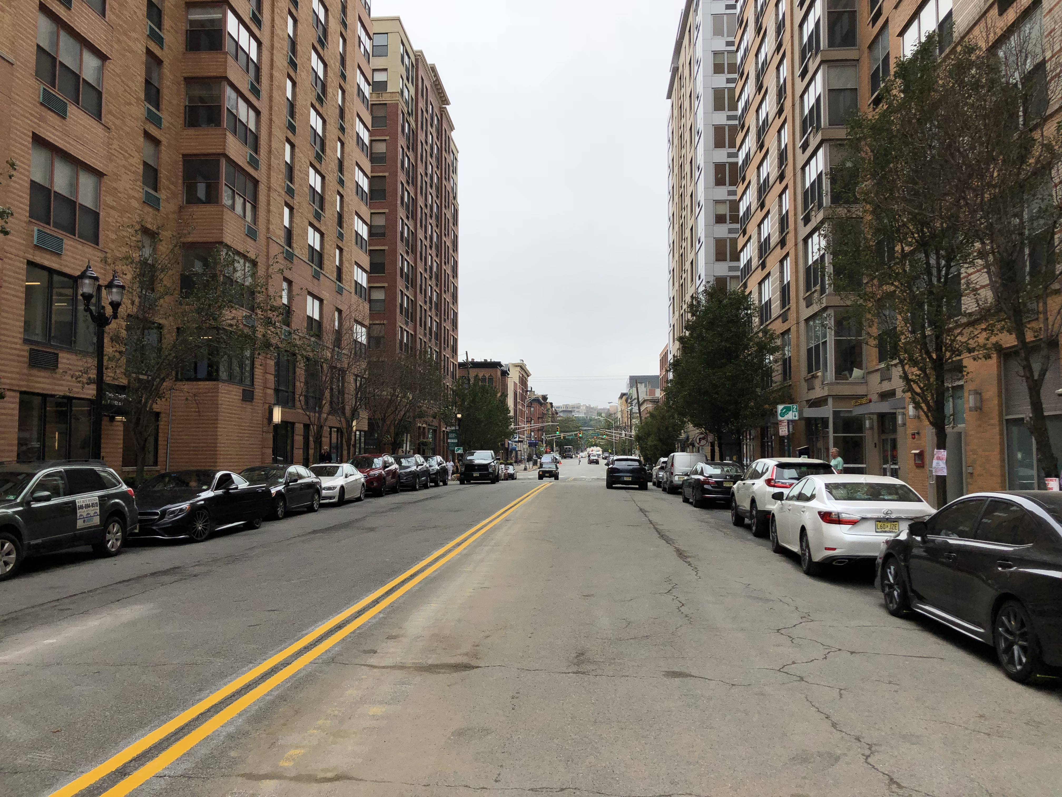 View west along Hudson County Route 670 (14th Street) between Frank Sinatra Drive and Bernard McFeeley Shipyard Lane in Hoboken, Hudson County, New Jersey